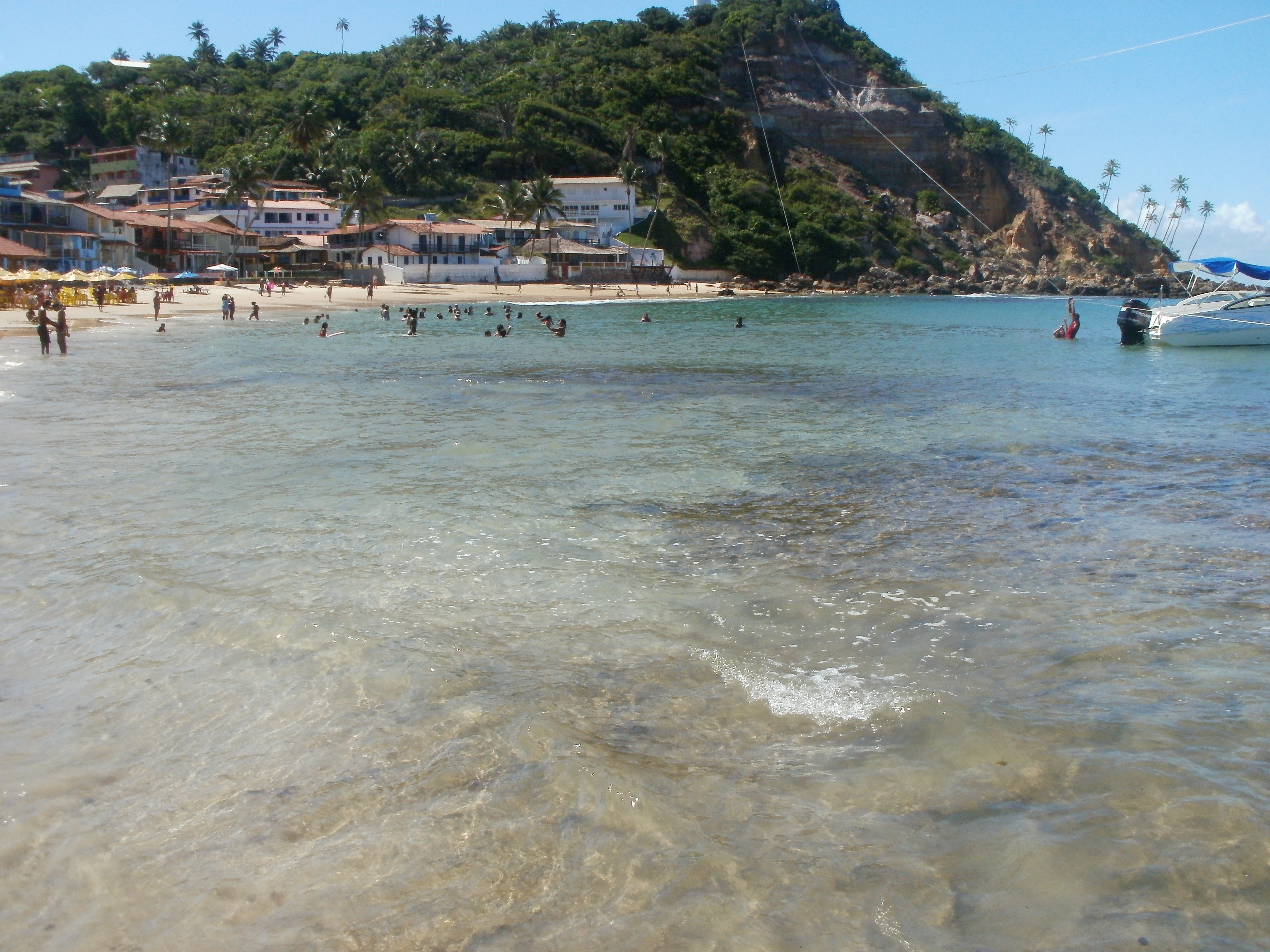 1st Beach' s Sea, Morro de São Paulo, Tinharé's Island, Bahia, Brazil.